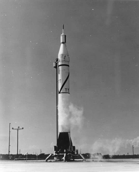 Launch pad with Jupiter C rocket and Explorer 4 satellite.